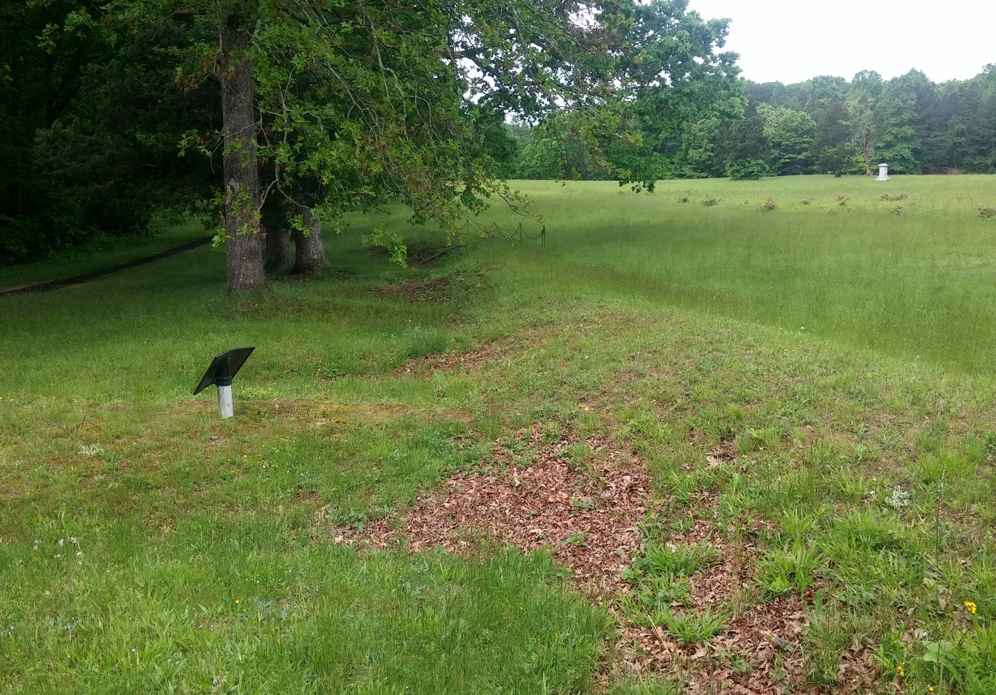 "Bloody angle", north side